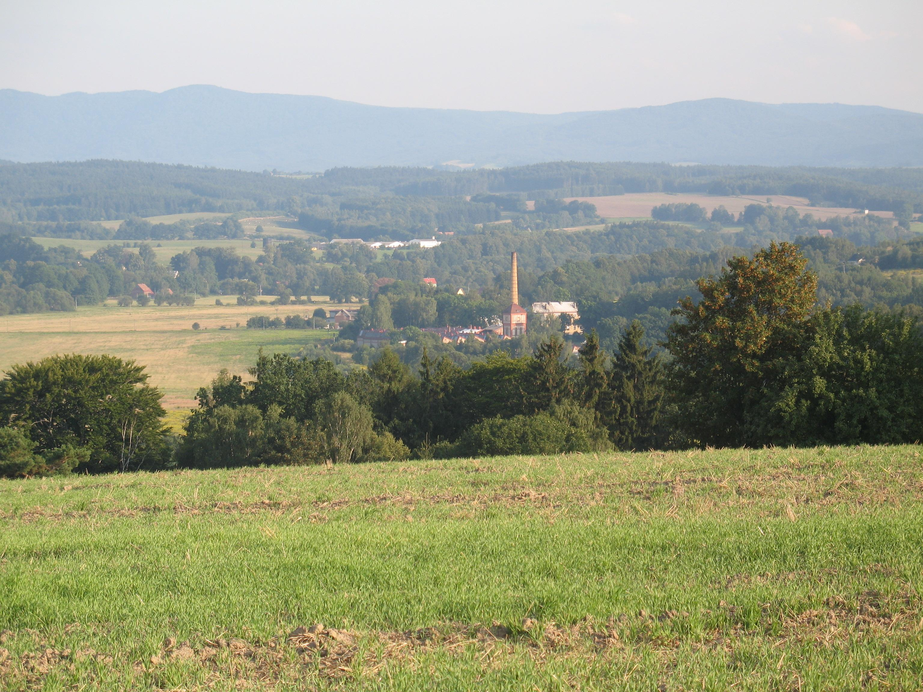 Landscape of Višňová